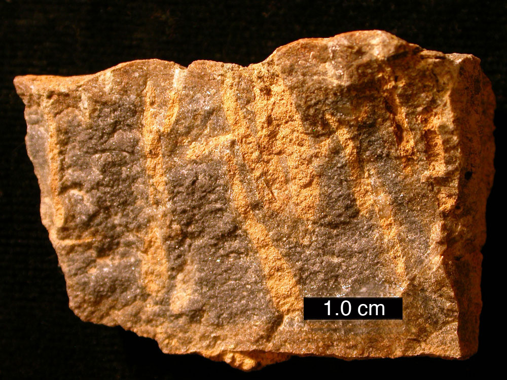 Cross-section of an Upper Ordovician hardground from Ohio. The light-colored vertical elements are Trypanites borings filled with dolomite.